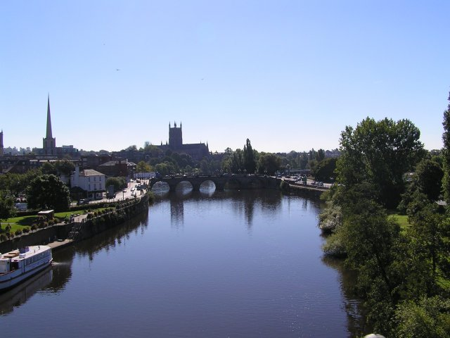 Worcester Cathedral and river Severn. Taken from on railway viaduct (legally I might add!)